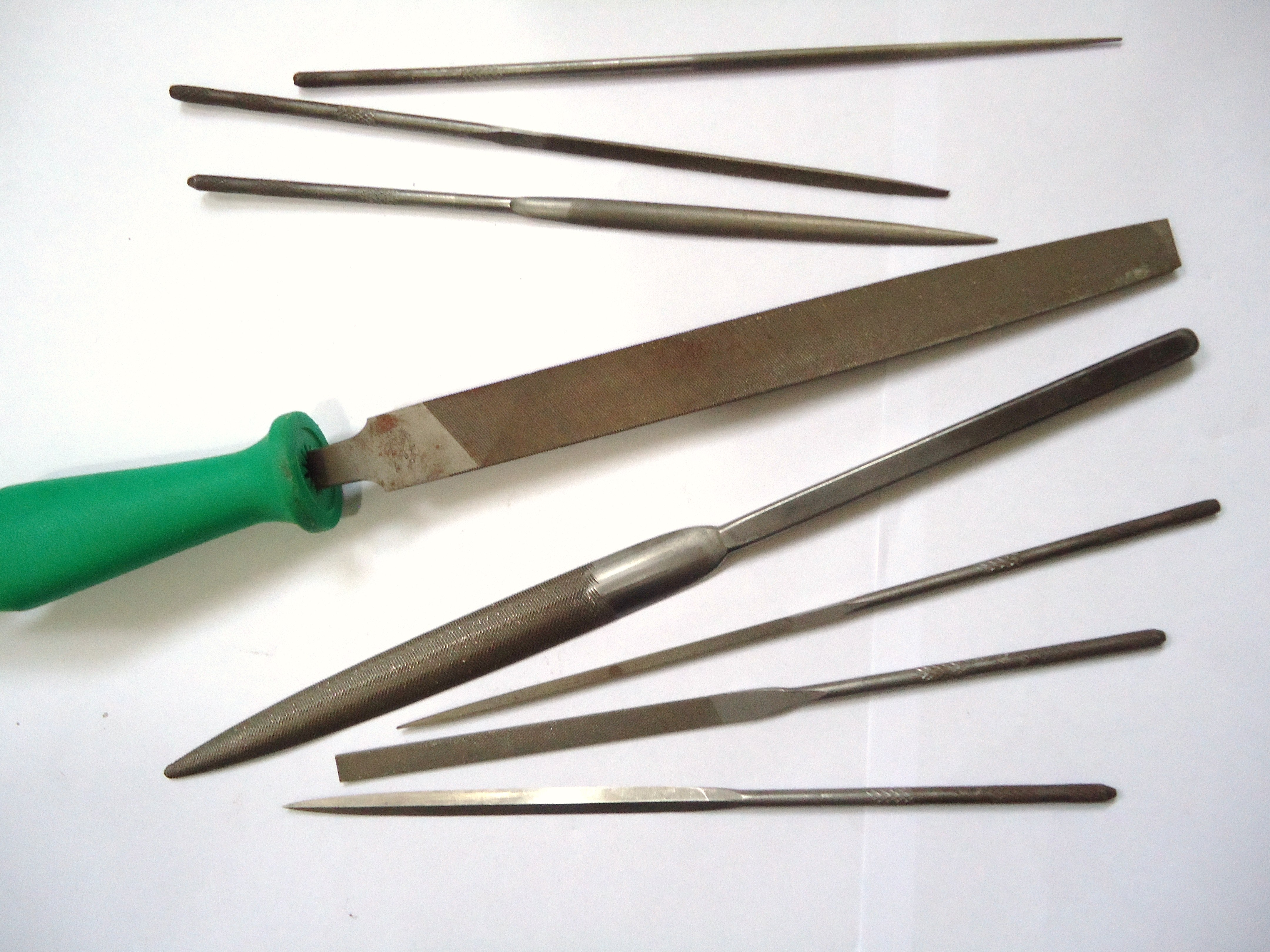 Some jewellery files. Photo : Mauro Cateb, Brazilian jeweler.